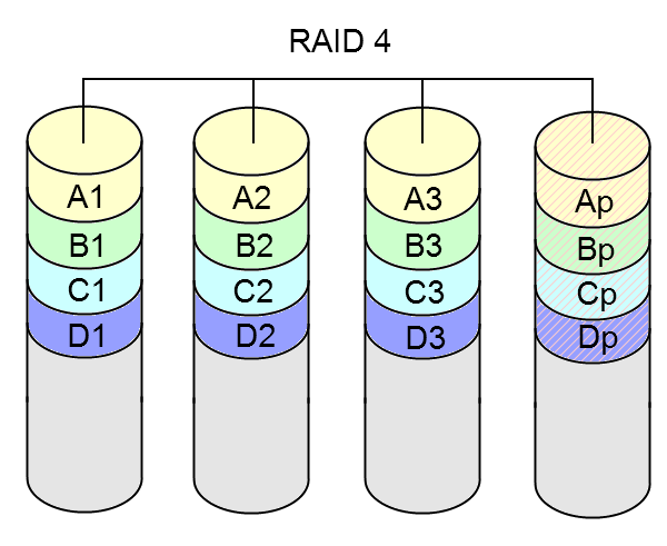 Diagram of RAID 4 storage